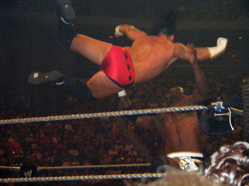 Punk's Springboard Flying Clothesline